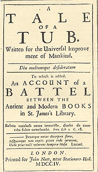 Title page of the en:1704 Tale of a Tub The page was set and produced by John Nutt (printer), en:1704, and is in public domain. Scanned and given to public domain and free use by Geogre 01:00, 19 Oct 2004 (UTC). Reproduction is from an original.